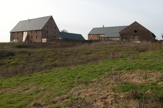 Great Manson Farm. These farm buildings overlooking the town of Monmouth have now been converted into residential housing.